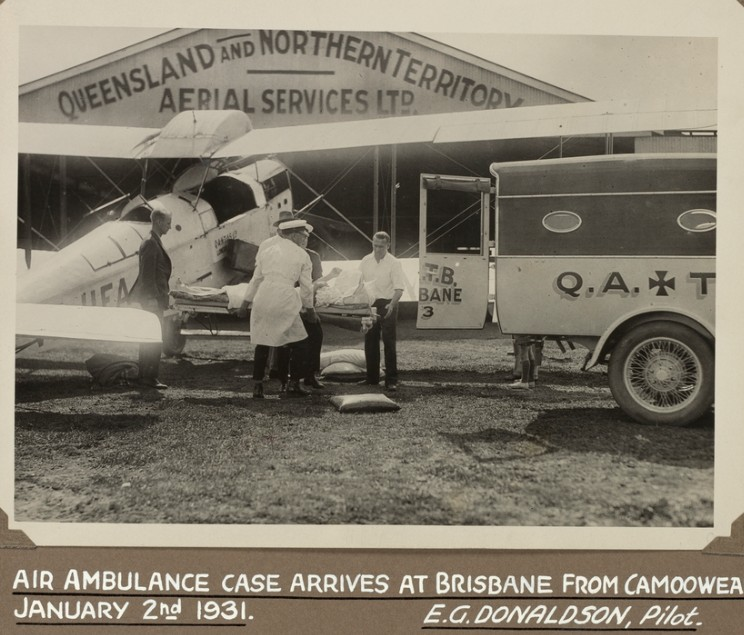 Air ambulance service in Brisbane for QANTAS, in 1931 aircraft De Havilland DH.50